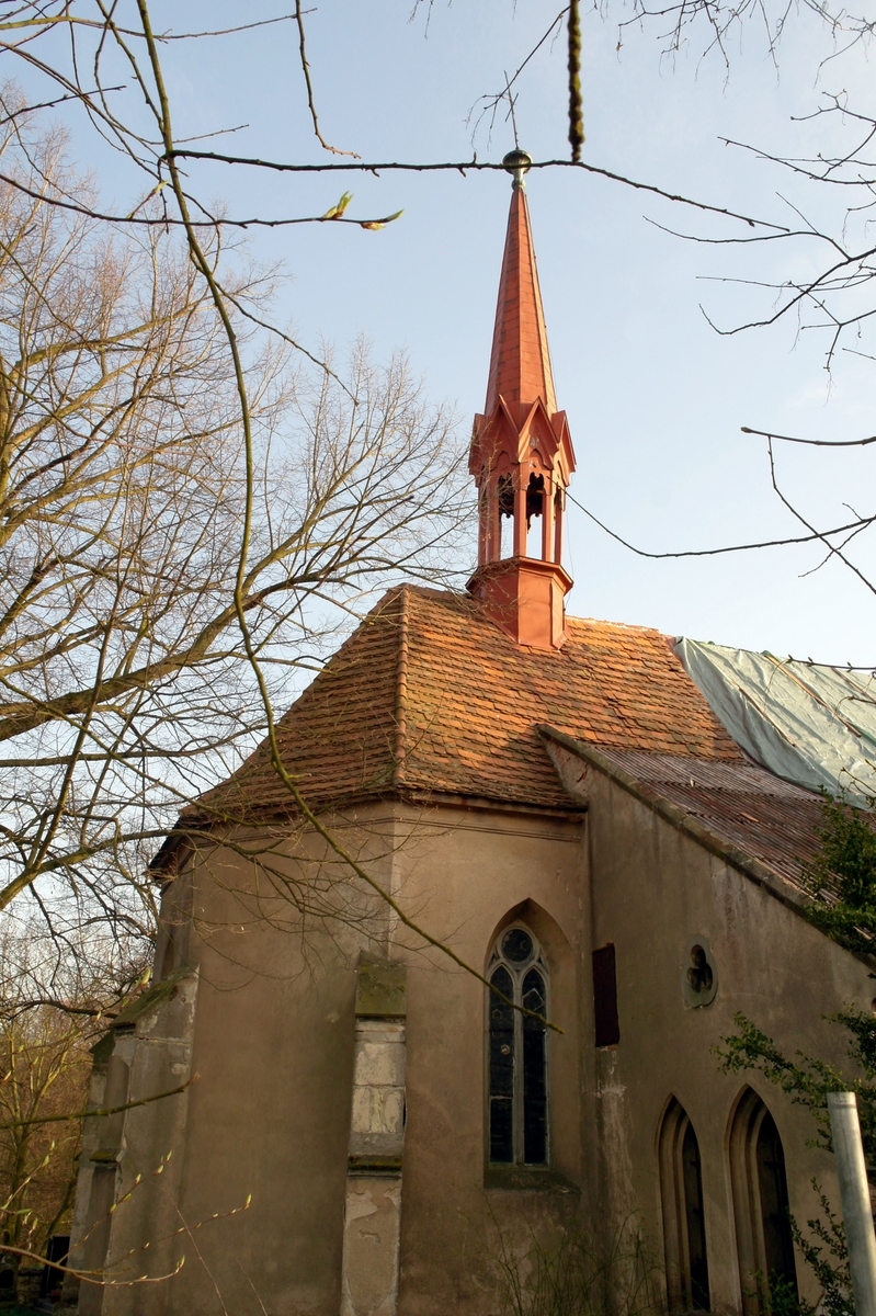 Church of St. James the Greater, Otruby (Slaný), Kladno District. The presbytery, view from the north. Above it is a flèche.